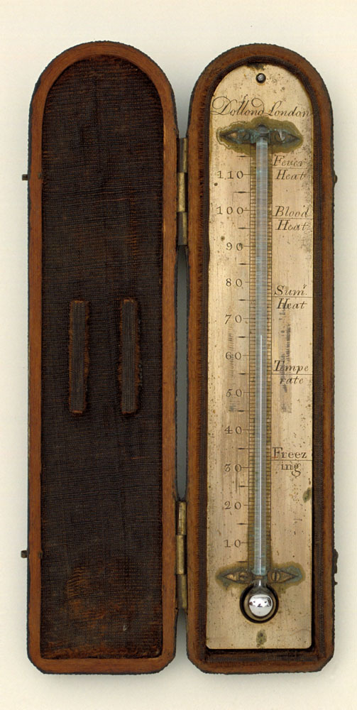 AuthorDollond firmDescription